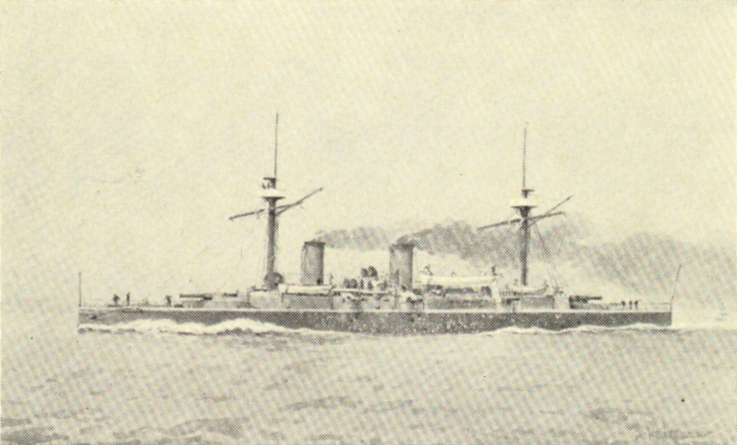 Chilean Cruiser Esmeralda, built in 1884 as the first modern protected cruiser.